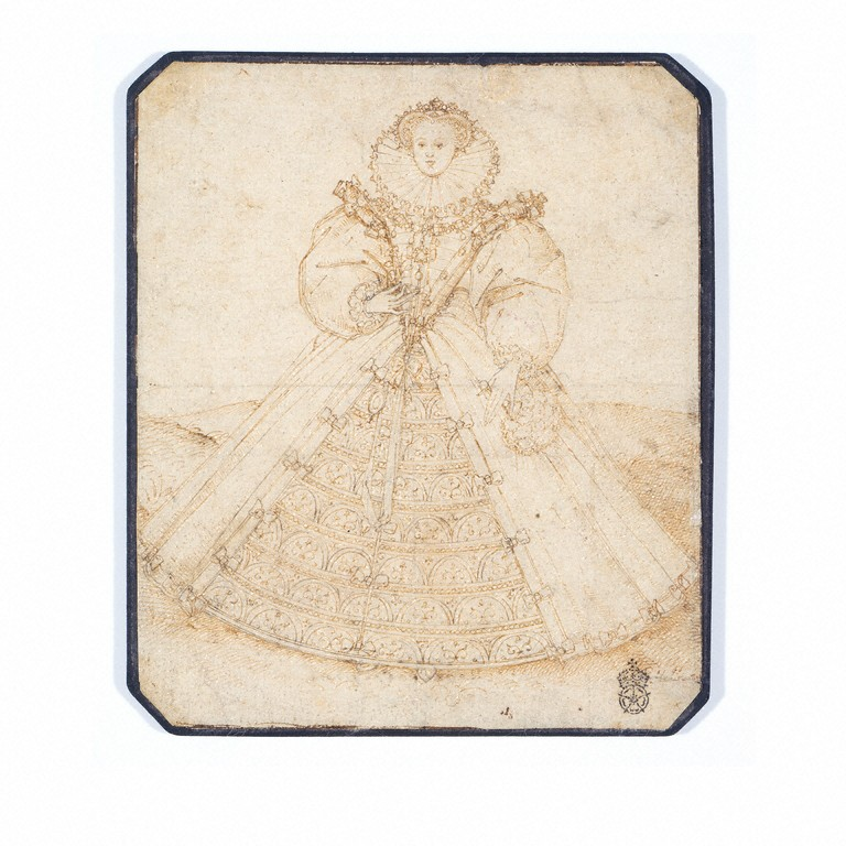 Elizabeth I